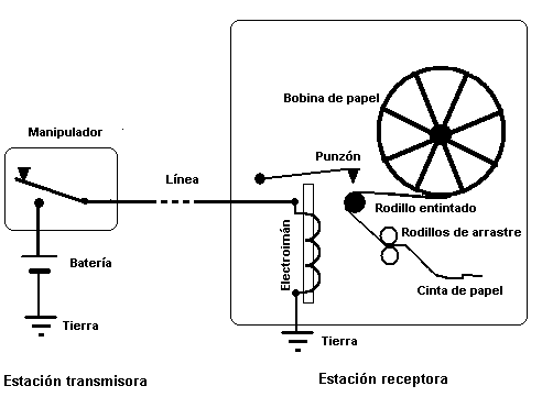 Simplified scheme of a telegraphic installation. NOTE: This image, created by PACO, was before uploaded to Wikipedia in Spanish, but I believe that now it is better in Commons.